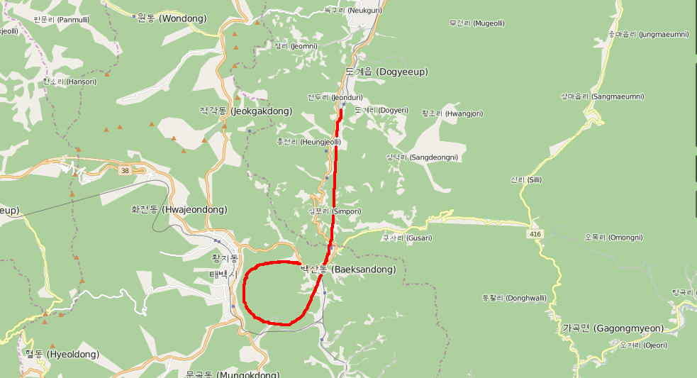 Map of Solan Tunnel around and Tunnel main pit This map may be incomplete, and may contain errors. Don't rely solely on it for navigation.